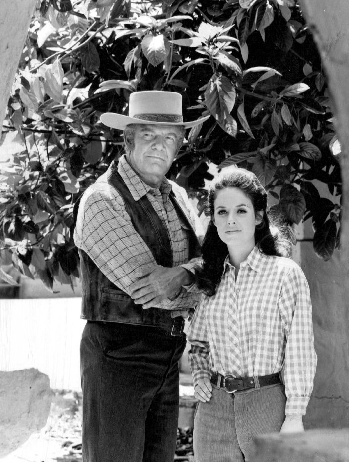 Photo of Andrew Duggan and Elizabeth Baur from the premiere of the television program Lancer.